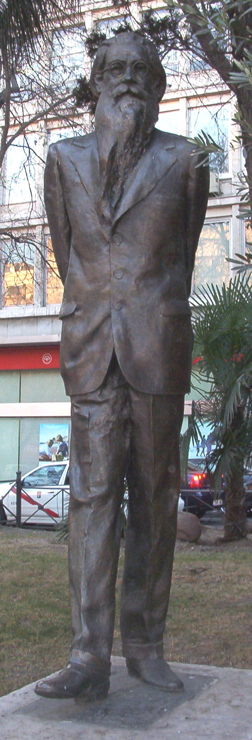 Statue dedicated to Ramón del Valle-Inclán (1866–1936) by the Círculo de Bellas Artes of Madrid. Made of bronze by Francisco Toledo Sánchez (1928–2004) in 1972 and installed at the Paseo de Recoletos (a boulevard) in Madrid (Spain) in 1973.